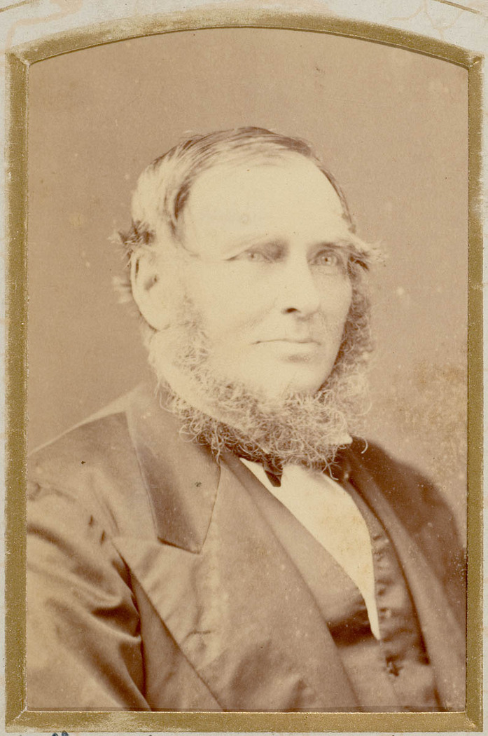 Charles Moore (after whom Moore Park is named) from Album of portraits collected by John William Richard Clarke, ca. 1866-1909